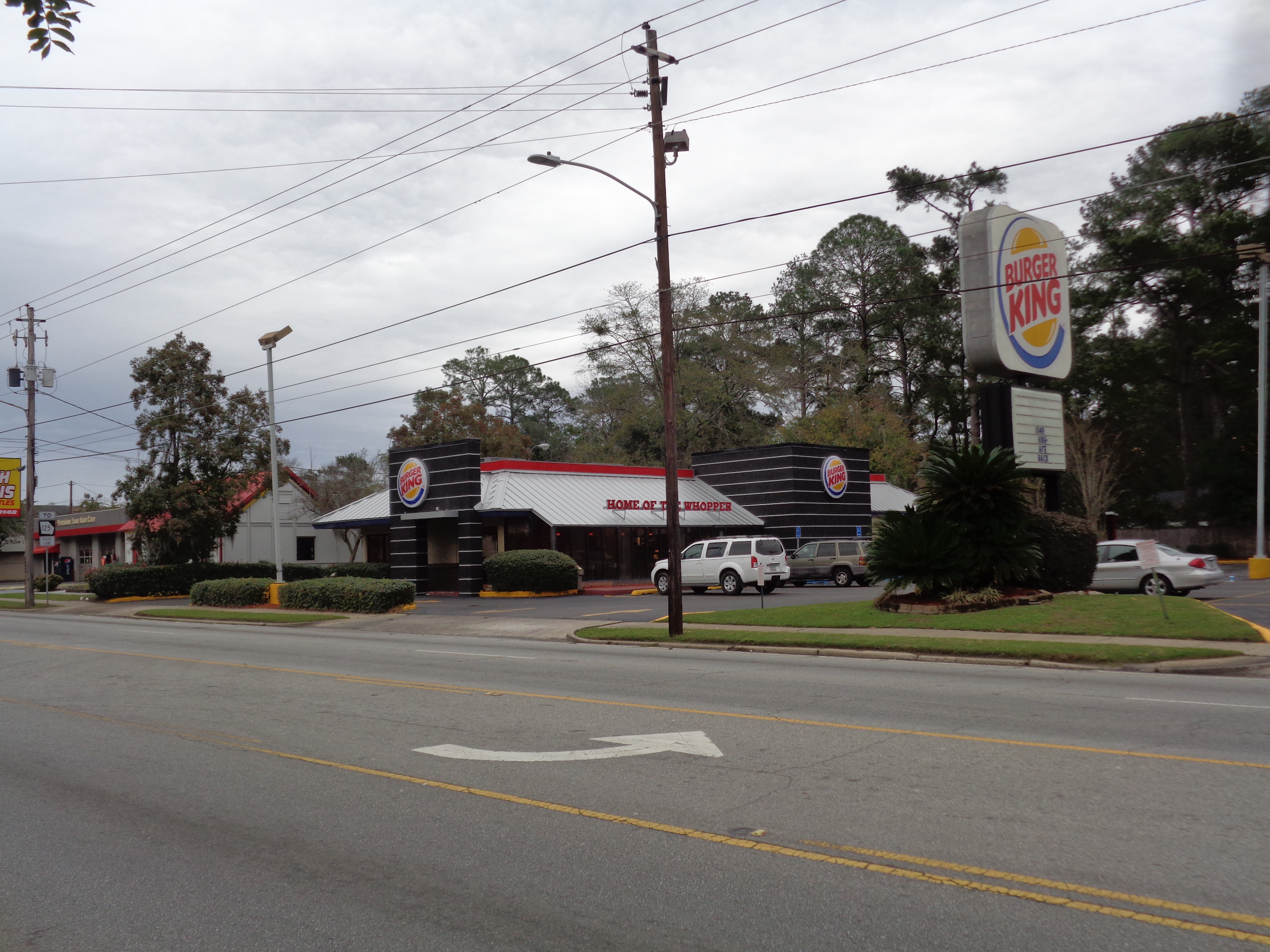 Burger King, Ashley St, Valdosta, Lowndes County, Georgia